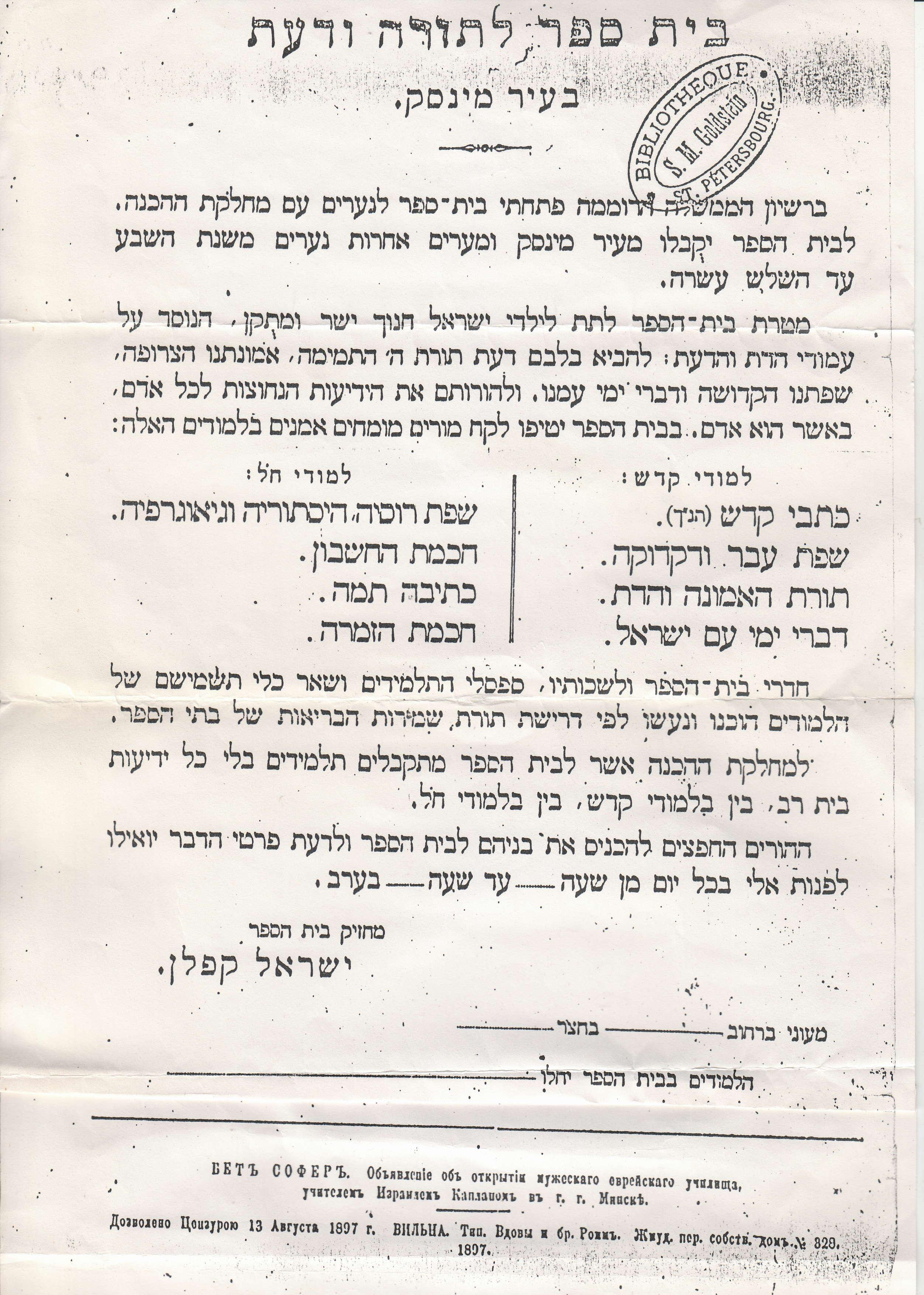 Advertisement of Israel Kaplan's progressive Jewish school "LeTorah VaDa'at" in Minsk c. 1897